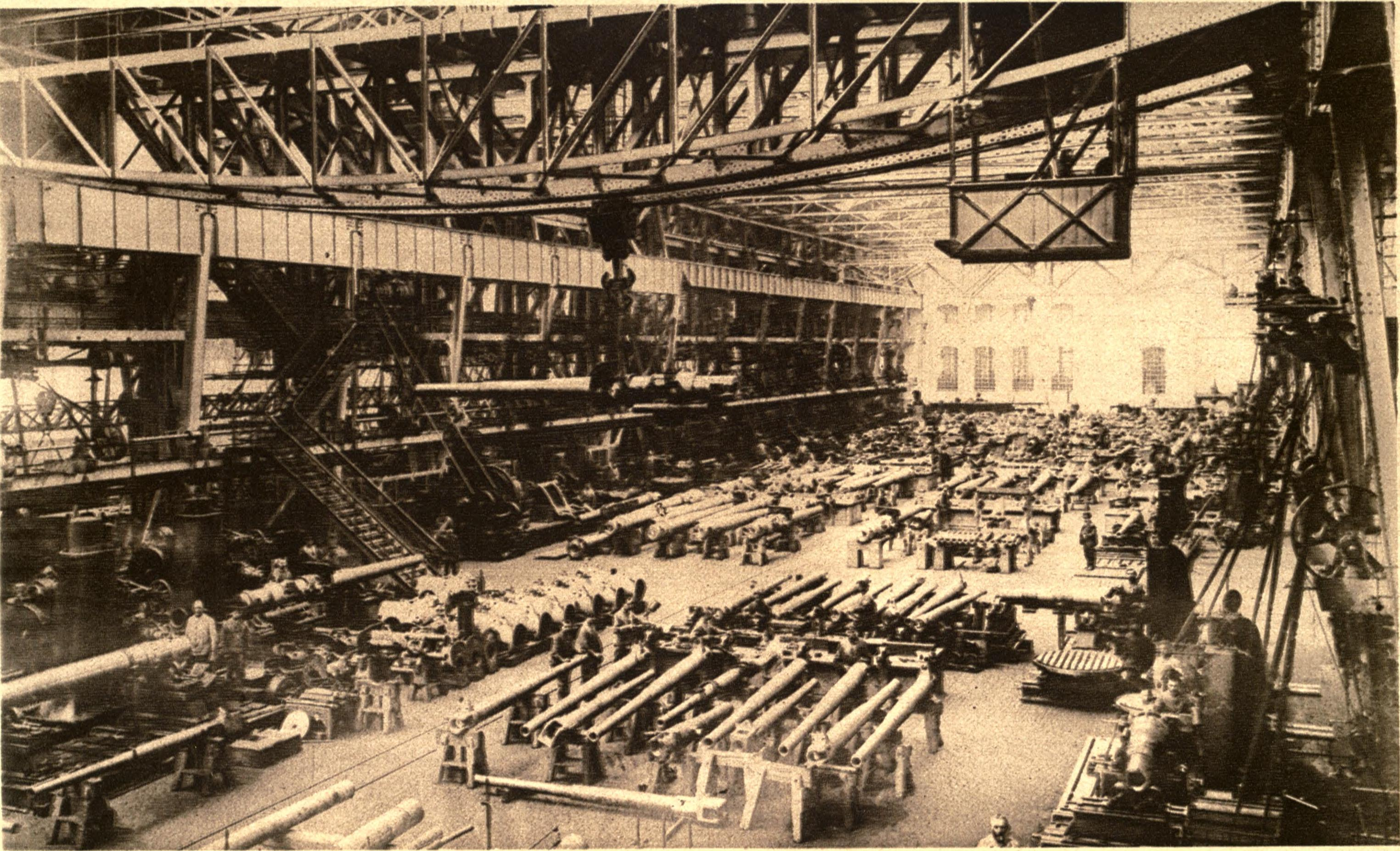 Scene in the Krupp Gun Works, where Germany's army and navy guns are manufactured.